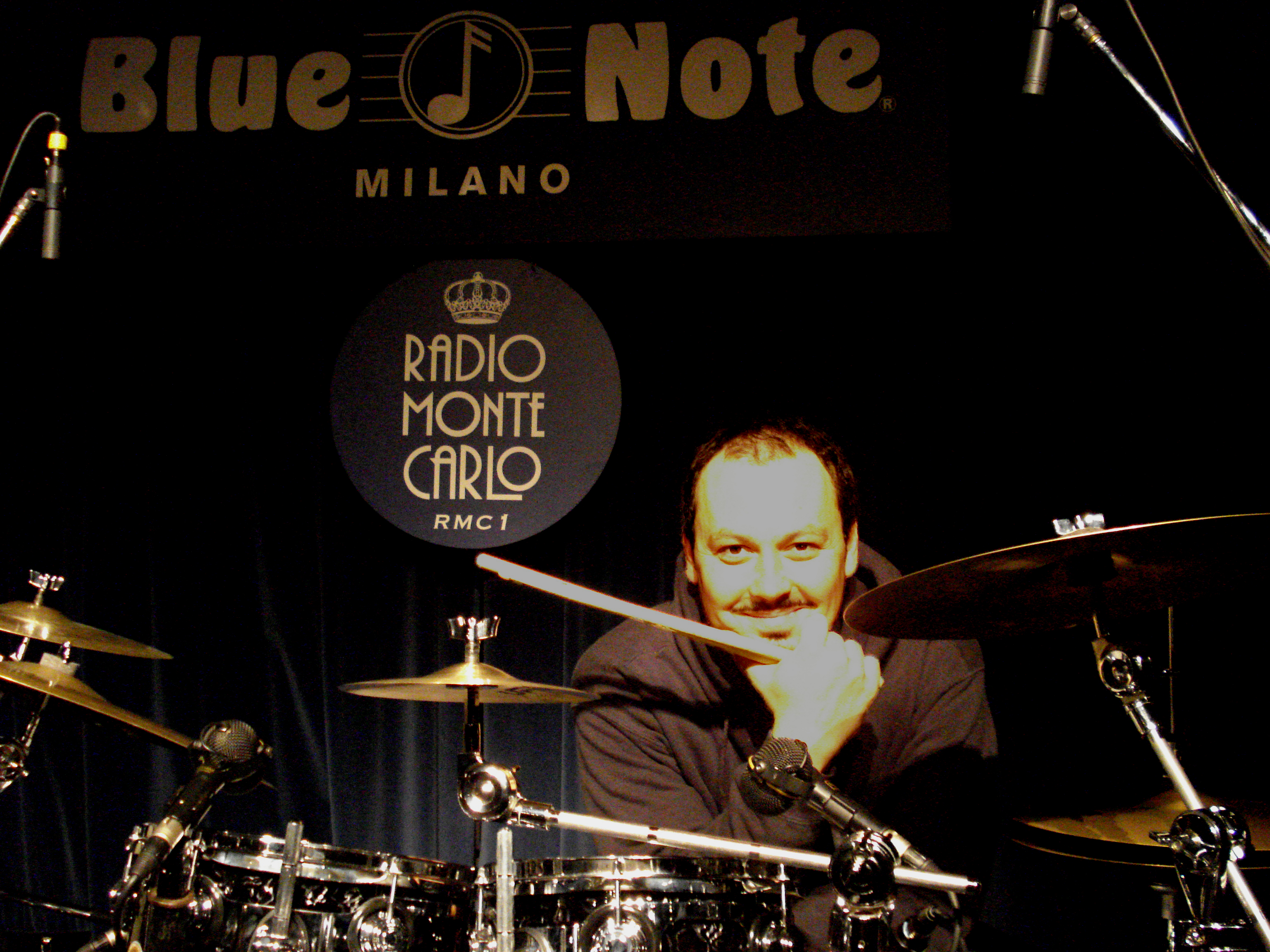 Guido May performing at the Jazz Club Blue Note in Milano with Pee Wee Ellis and Fred Wesley